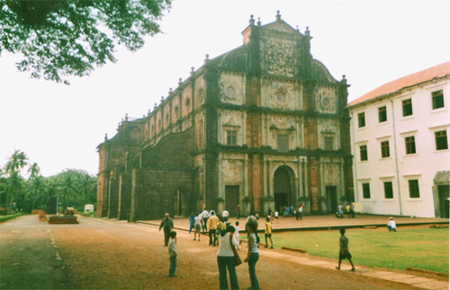 Bom Jesus Basilica, Goa, India is a World Heritage site.